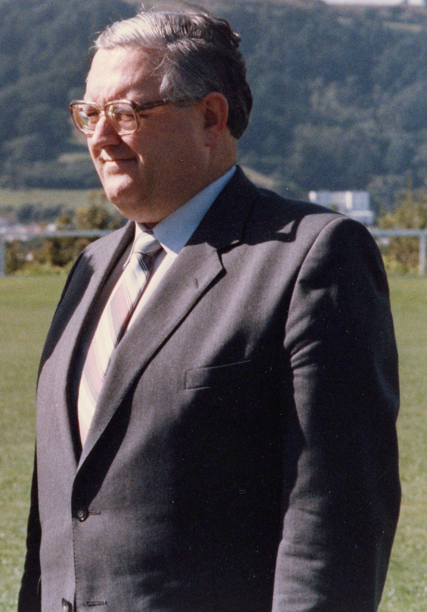 Jonathan Hunt in 1986